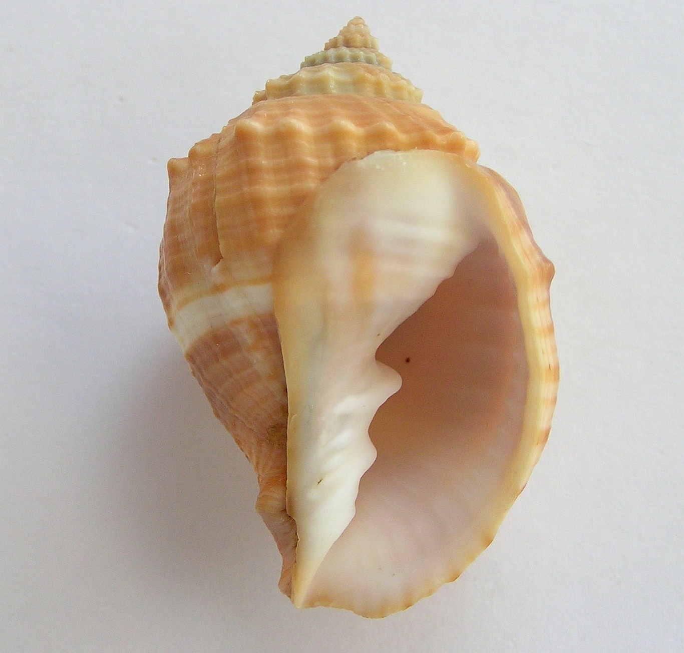 Cancellaria (Euclia) cassidiformis Sowerby, 1832 ; Mexico